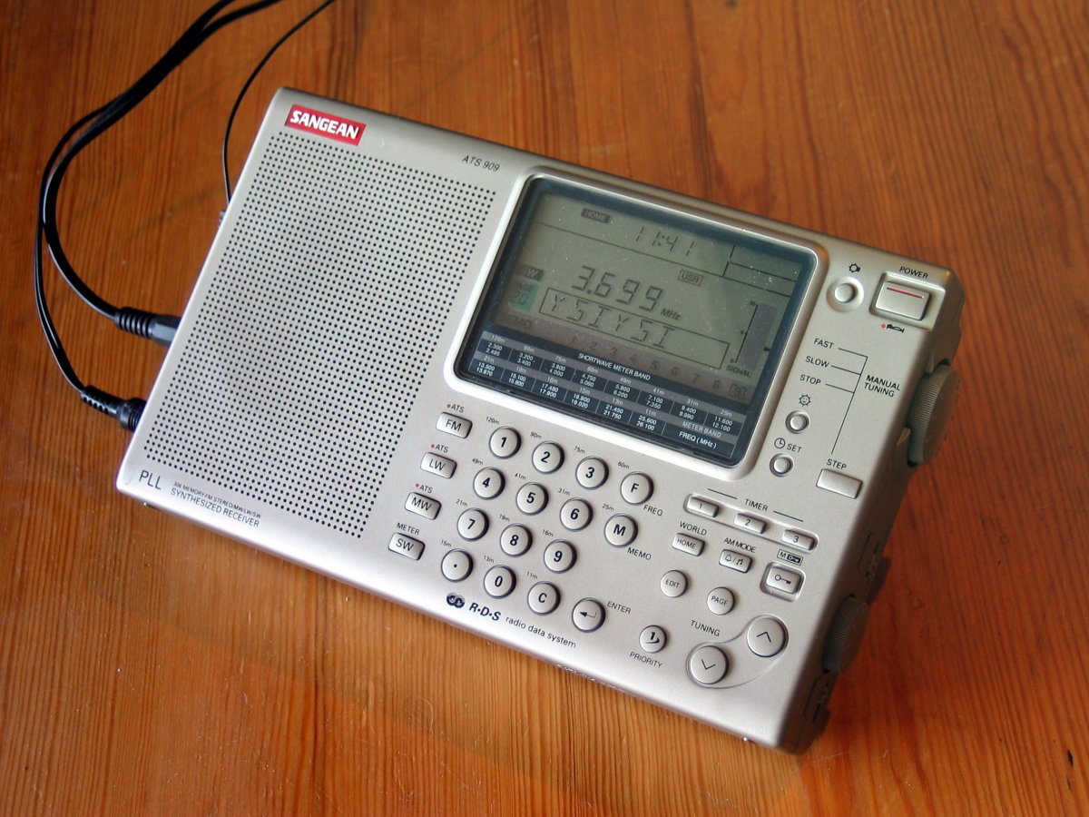 A "world band" or shortwave receiver (Sangean ATS-909). Currently receiving 3699 kHz USB (labeled Ysiysi, the Finnish name for this amateur frequency).